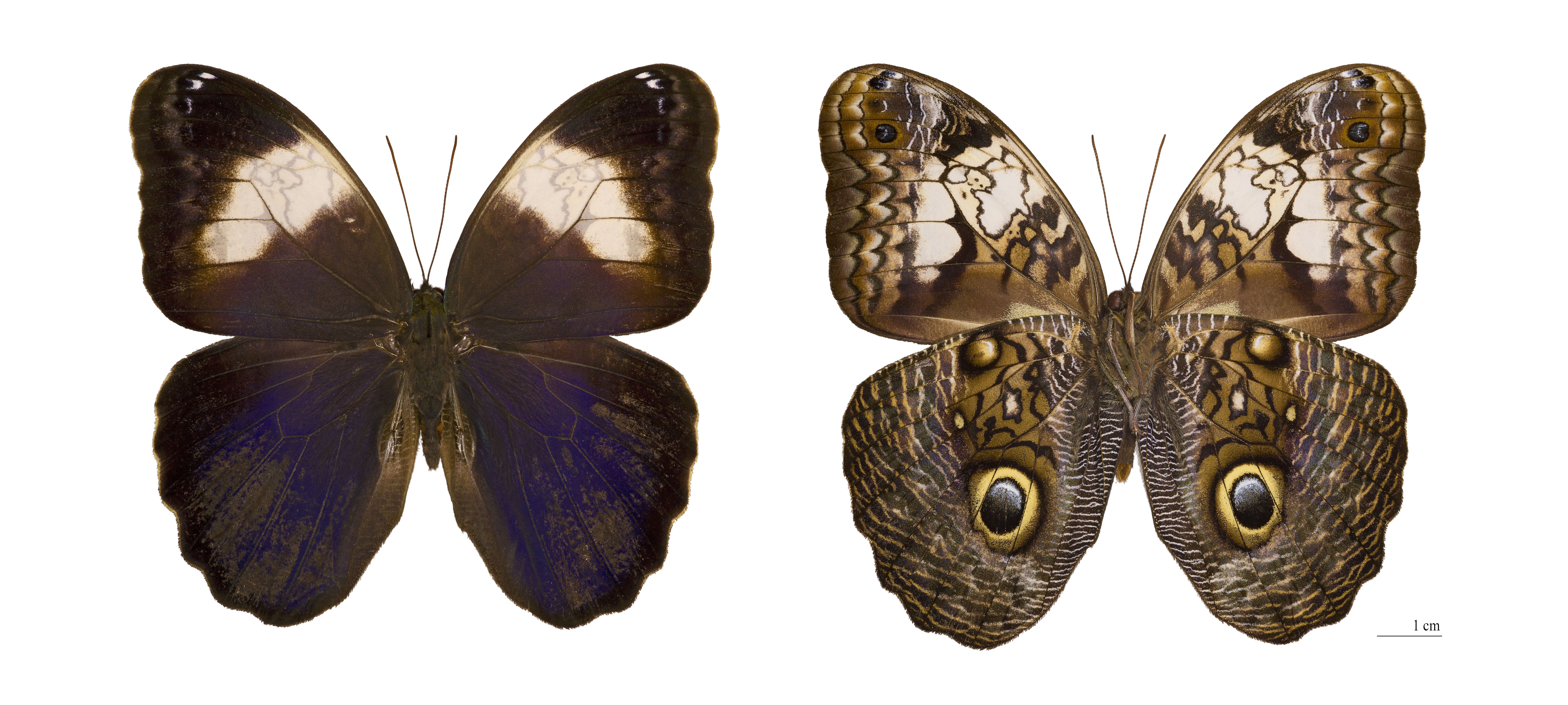 Male specimen - Two views of same specimen Localité : São Bento do Sul, Santa Catarina, Brasil